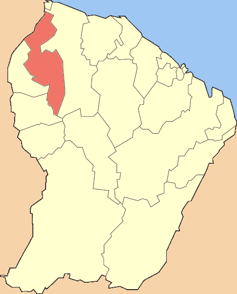 Made map myself.